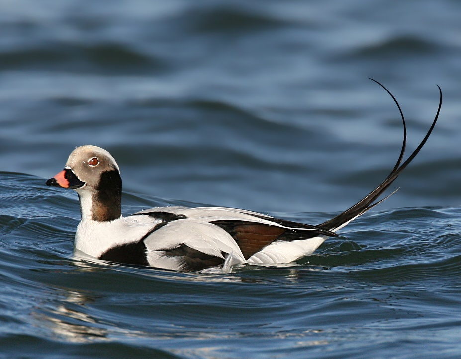 Long-tailed Duck Clangula hyemalis, Long Island, New York